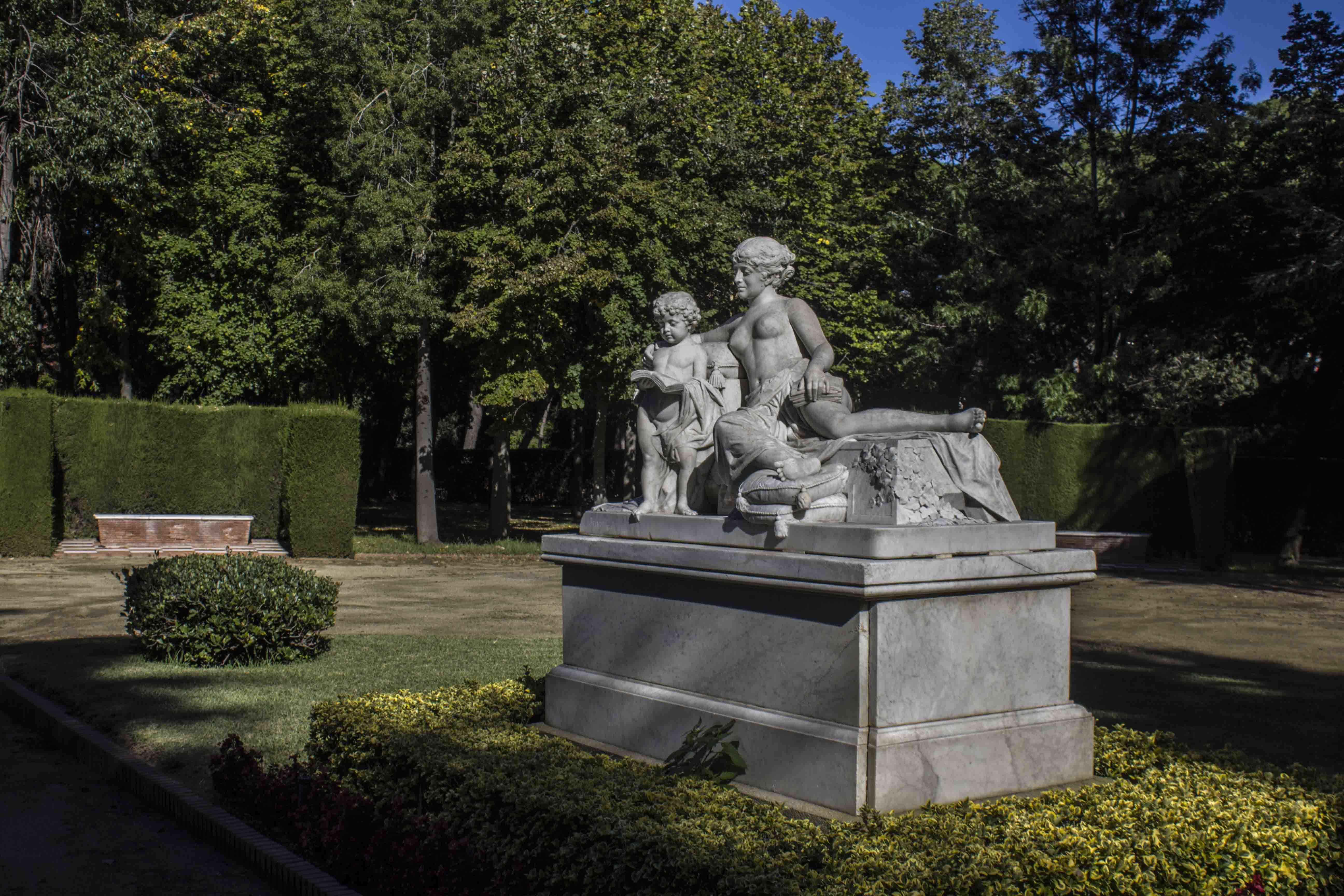 Josep Reynés i Gurguí: La Lectura